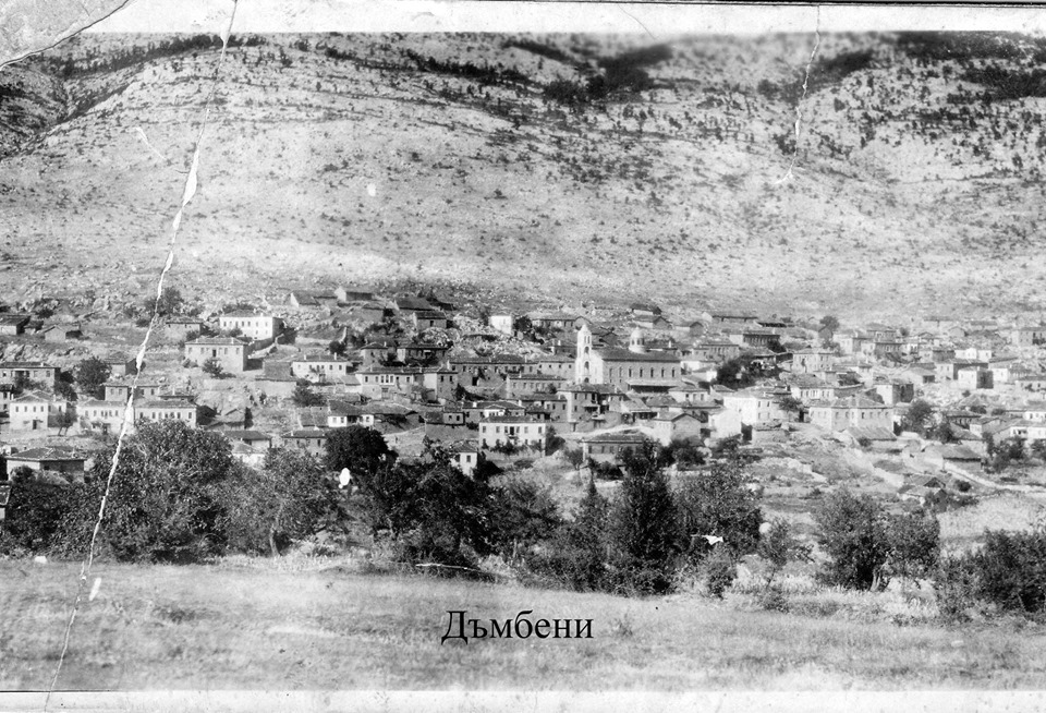 Village of Dendrohori, Macedonia, Greece